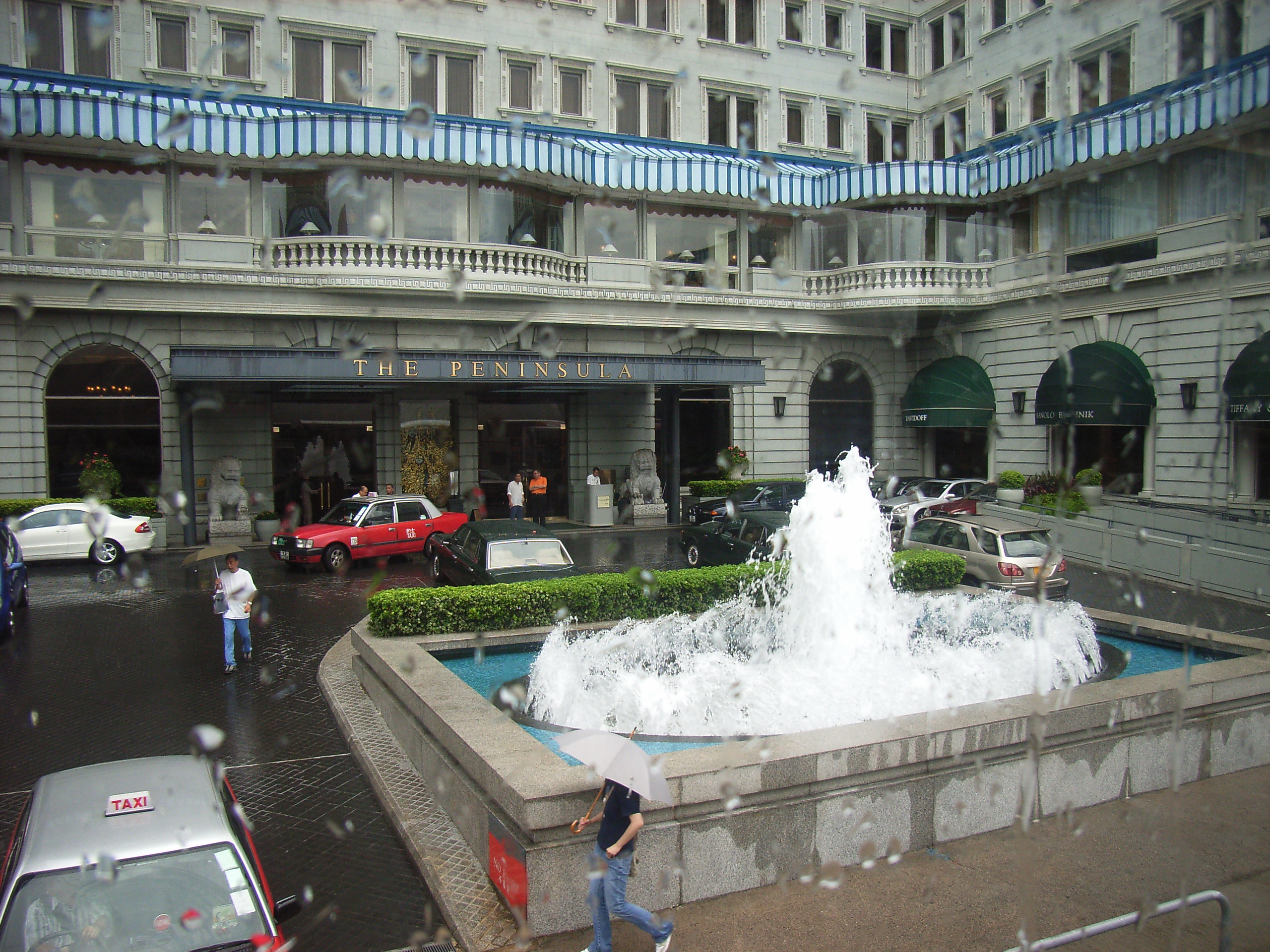 The hotel front door of The Peninsula, TST, Kowloon, Hong Kong By Leung Sin T S TSO